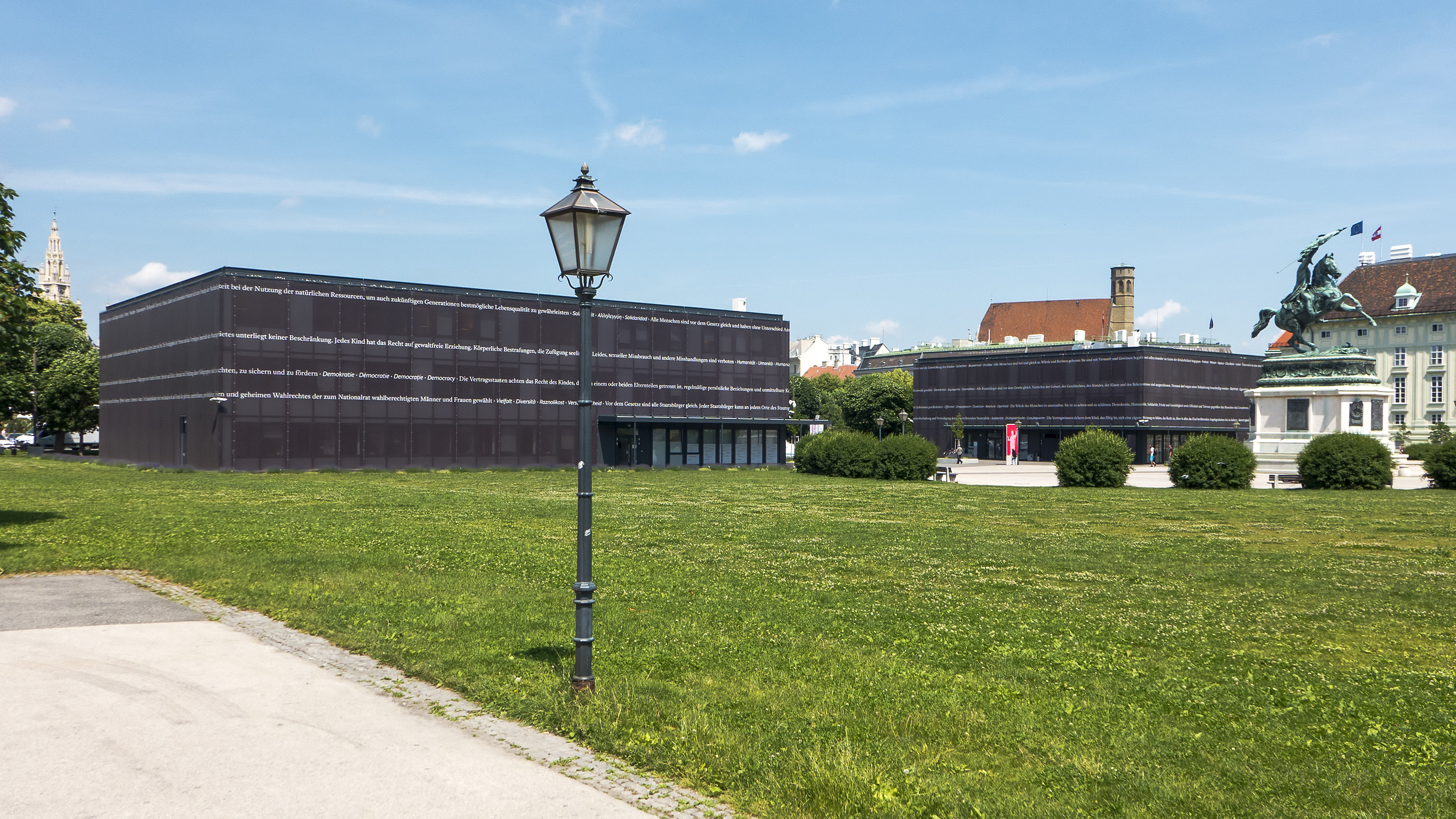 Provisional building of the Austrian Parliament at Heldenplatz in Vienna 1